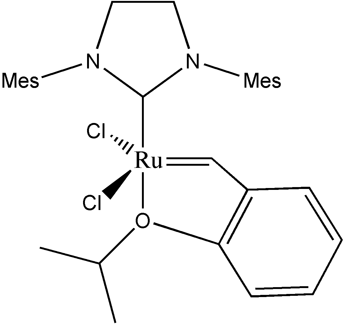 Hoveyda-Katalysator 2. Generation